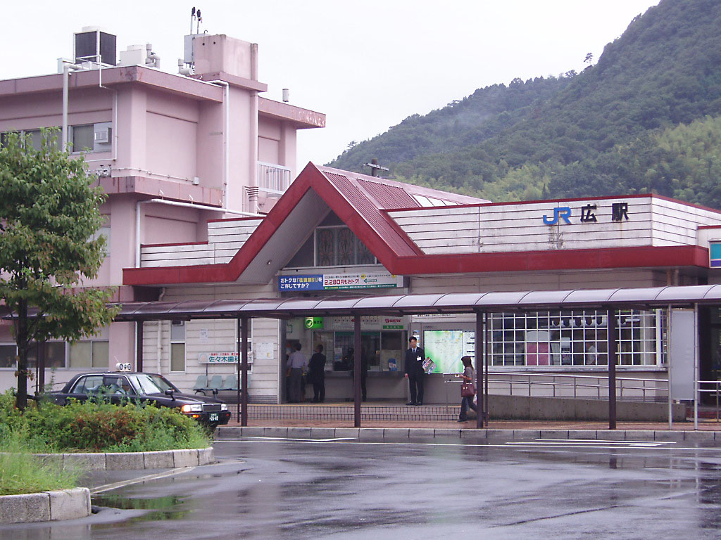 West Japan Railway Kure Line Hiro Station西日本旅客鉄道 呉線 広駅駅建物